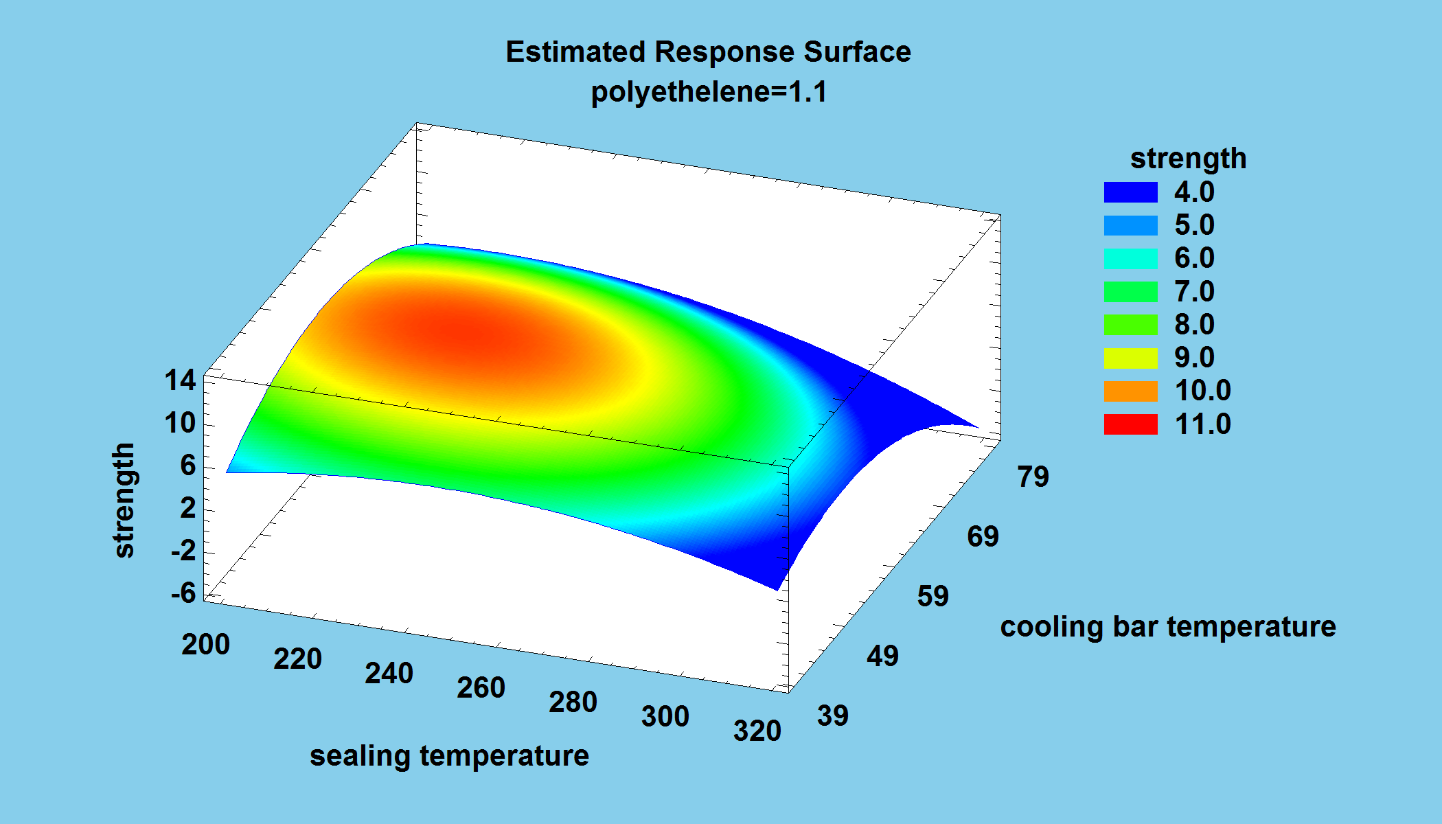 Dynamic visualization with Statgraphics Centurion makes creating complex 2D and 3D dynamic graphs and charts simple.